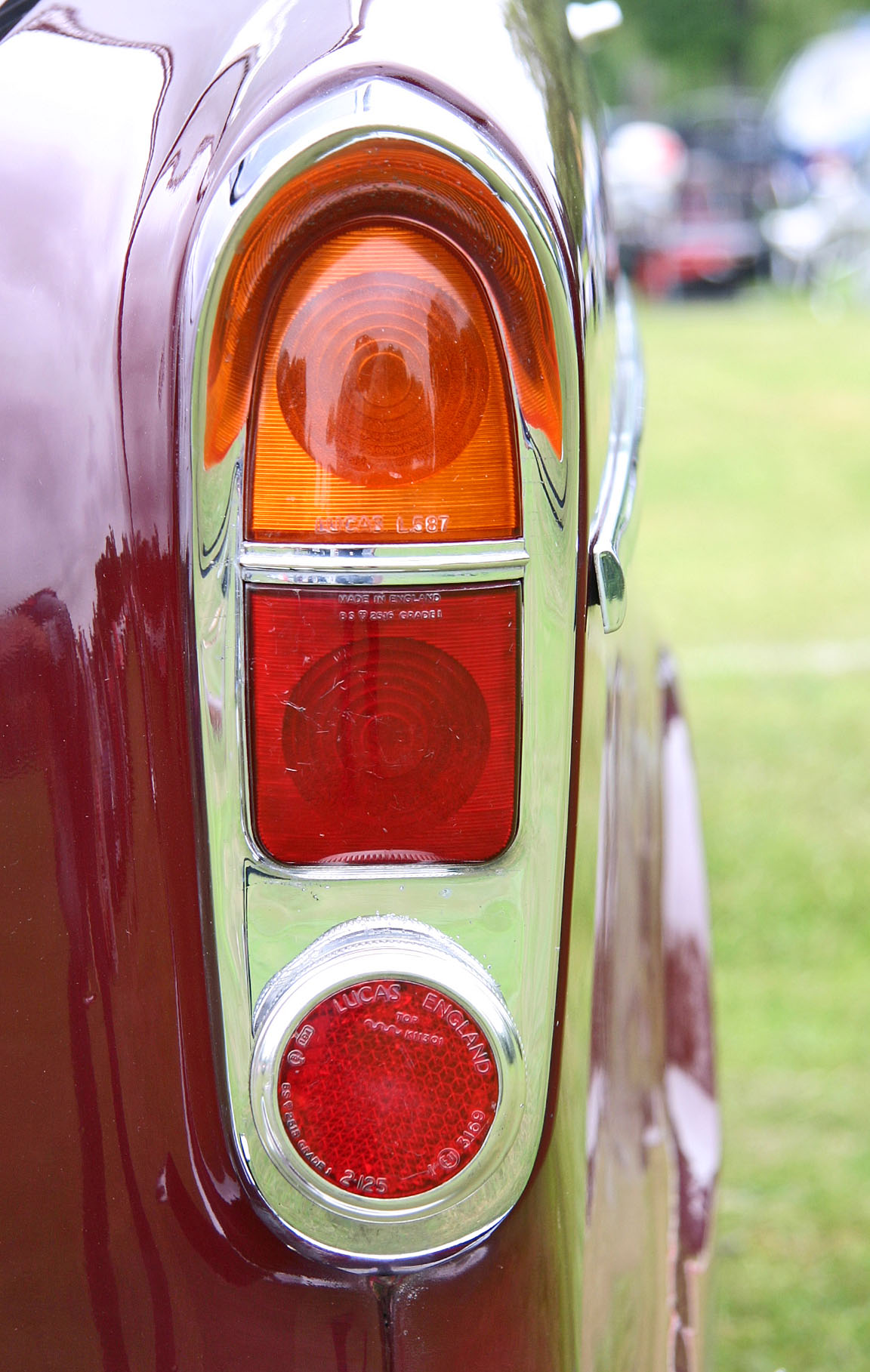 Humber Super Snipe Series IV. Series III and Series IV Hawks and Super Snipes had a higher revised rear window